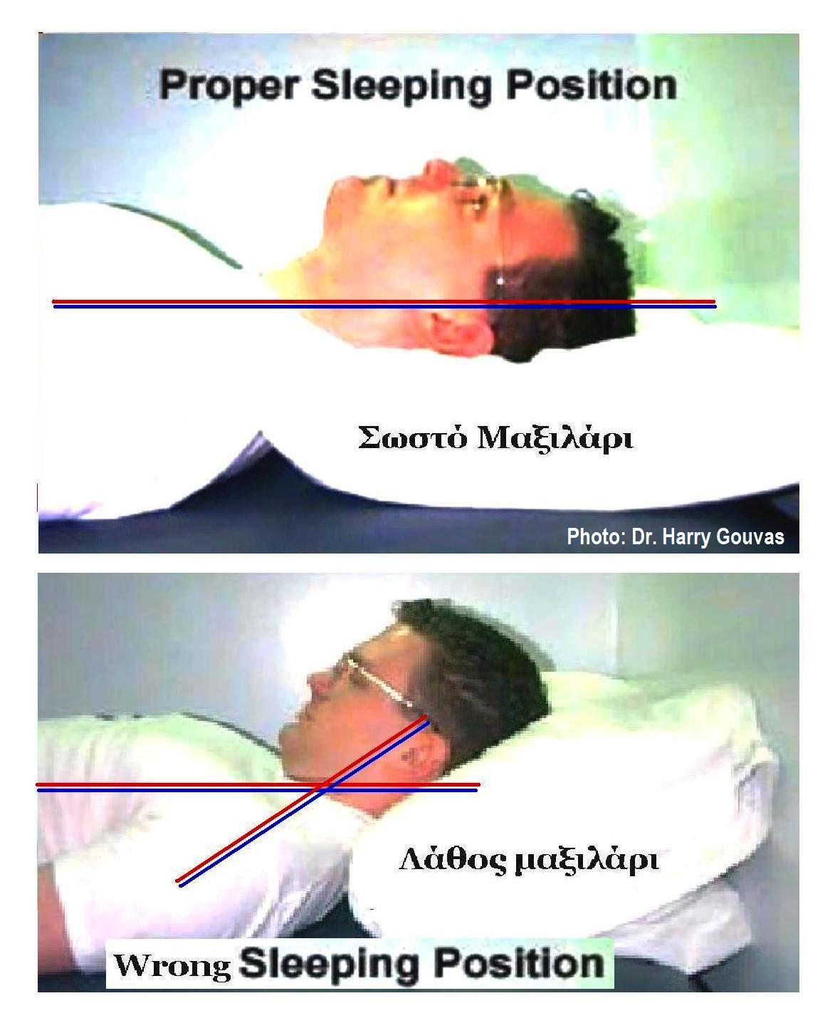 Proper and wrong sleeping position